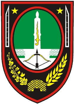 Coat of arms of City of Surakarta.